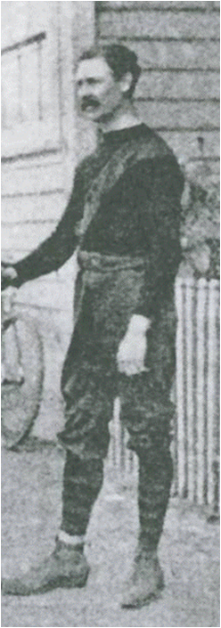 Essendon captain George Stuckey before the 1898 Grand Final against Fitzroy.